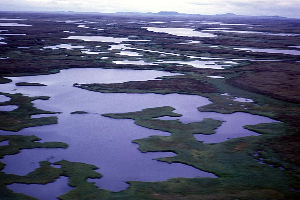 Aerial view of Hazen Bay wetlands. [1]